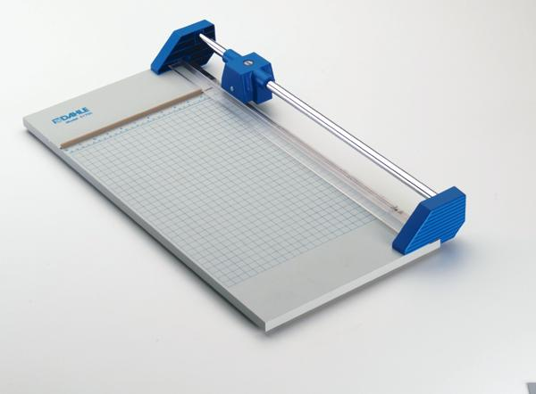 made myself